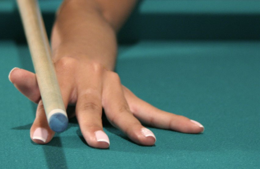 billiard